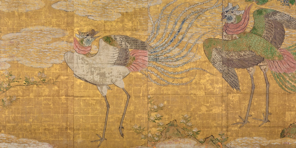 Partition paintings of phoenixes from the Daihiroma, Honmaru, Sendai Castles, Sendai, Miyagi, Japan (in Matsushima)